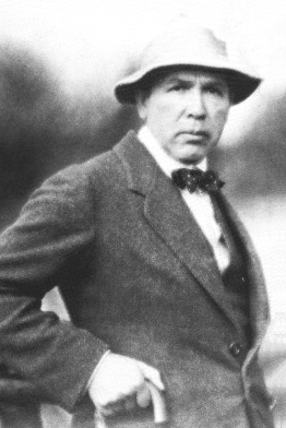 Portrait of the artist Bernhard Hoetger.